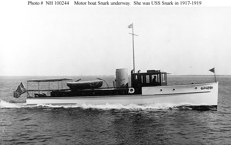 The private motorboat Snark in private use sometime after her United States Navy service as the patrol vessel . In commemoration of her World War I U.S. Navy service, her section patrol number is painted on her bow. Her pilothouse has been enlarged since her Navy service.